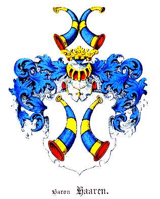 Coat of arms of Baron Haaren family